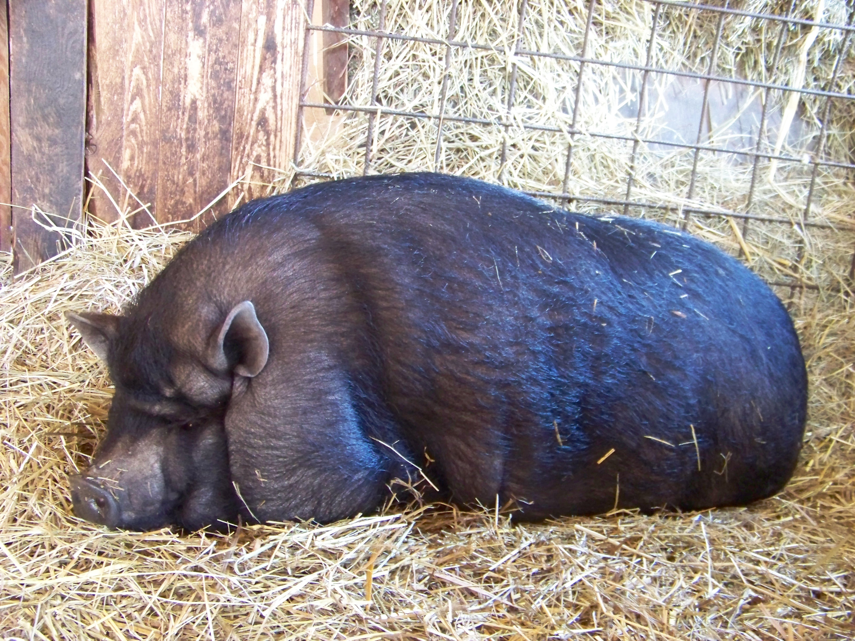 Chleby, Nymburk District, Central Bohemian Region, the Czech Republic. Zoo Chleby, a pig.